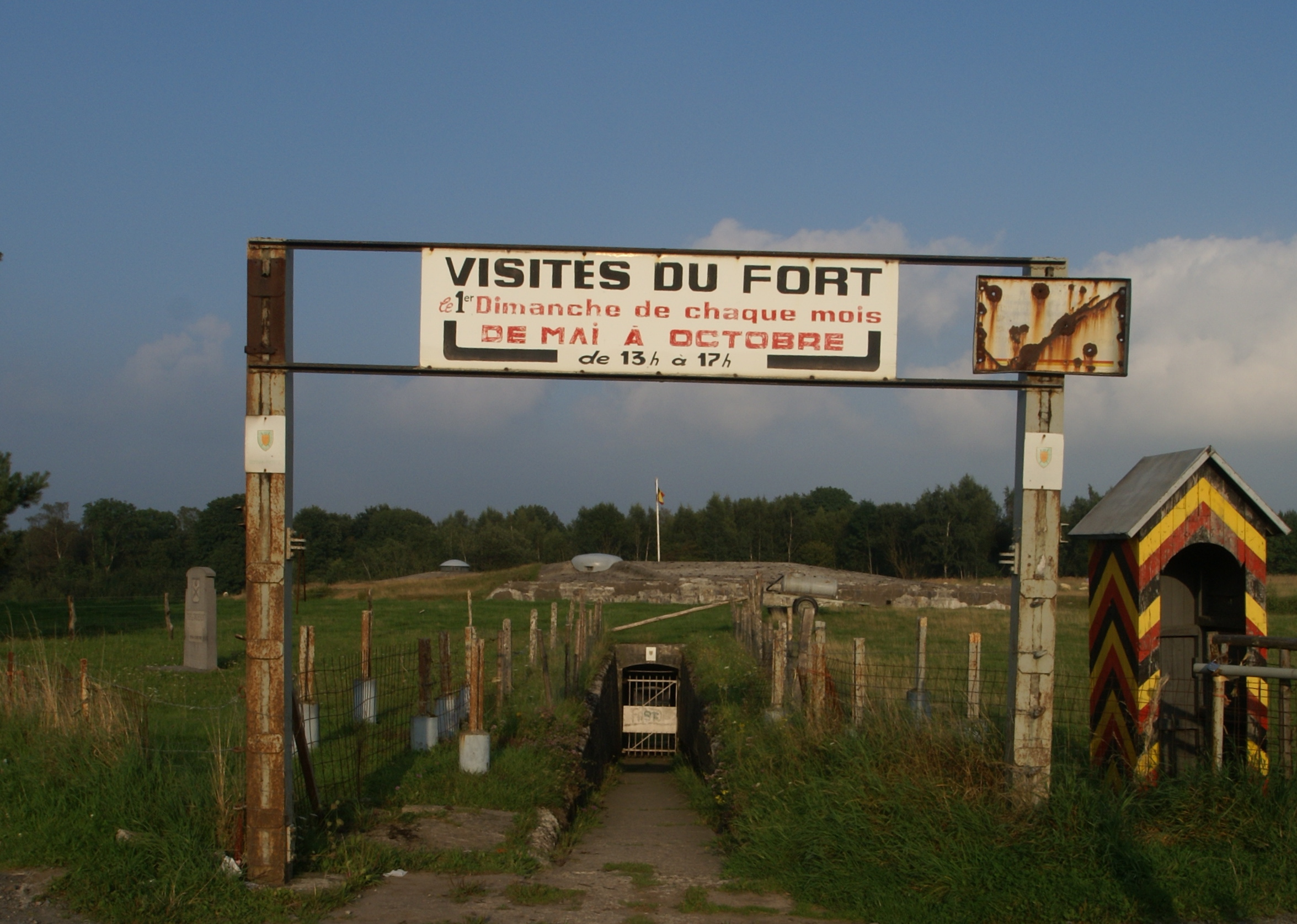 Tancrémont (Belgium): Entry of the fort